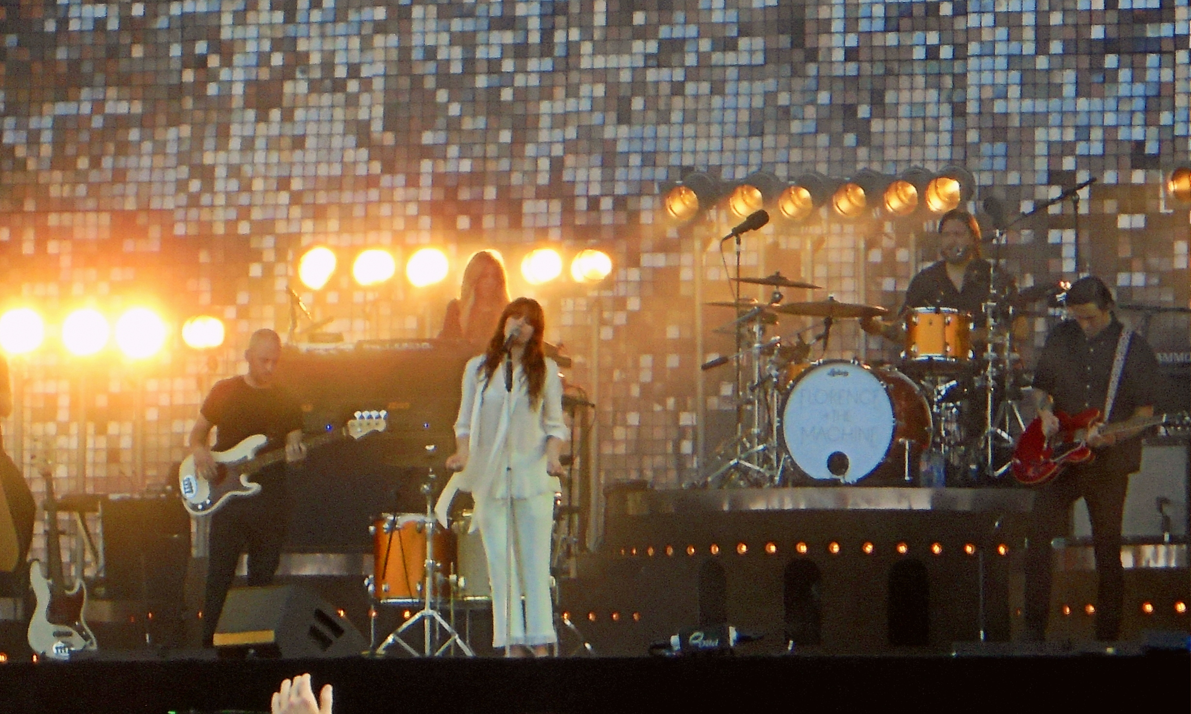 Florence + The Machine at Rock Werchter, Belgium, June 25 2015 (left to right: Mark Saunders, Isabella Summers, Florence Welch, Christopher Lloyd Hayden, and Robert Ackroyd. Not shown: Tom Monger and Rusty Bradshaw)